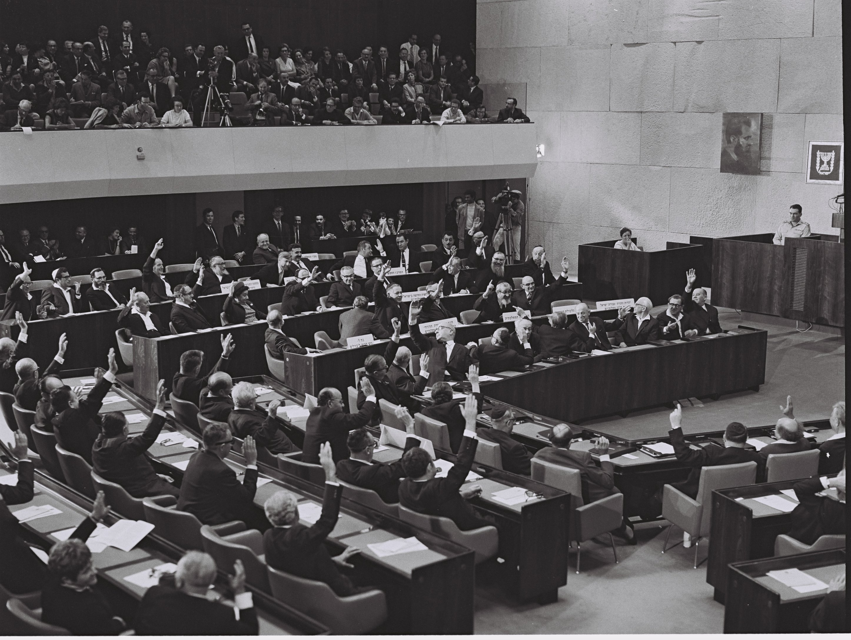 MEMBERS OF THE 7TH KNESSET RAISING THEIR HANDS AFFIRMING THE ELECTION OF M.K. REUVEN BARKATT AS SPEAKER OF THE HOUSE.